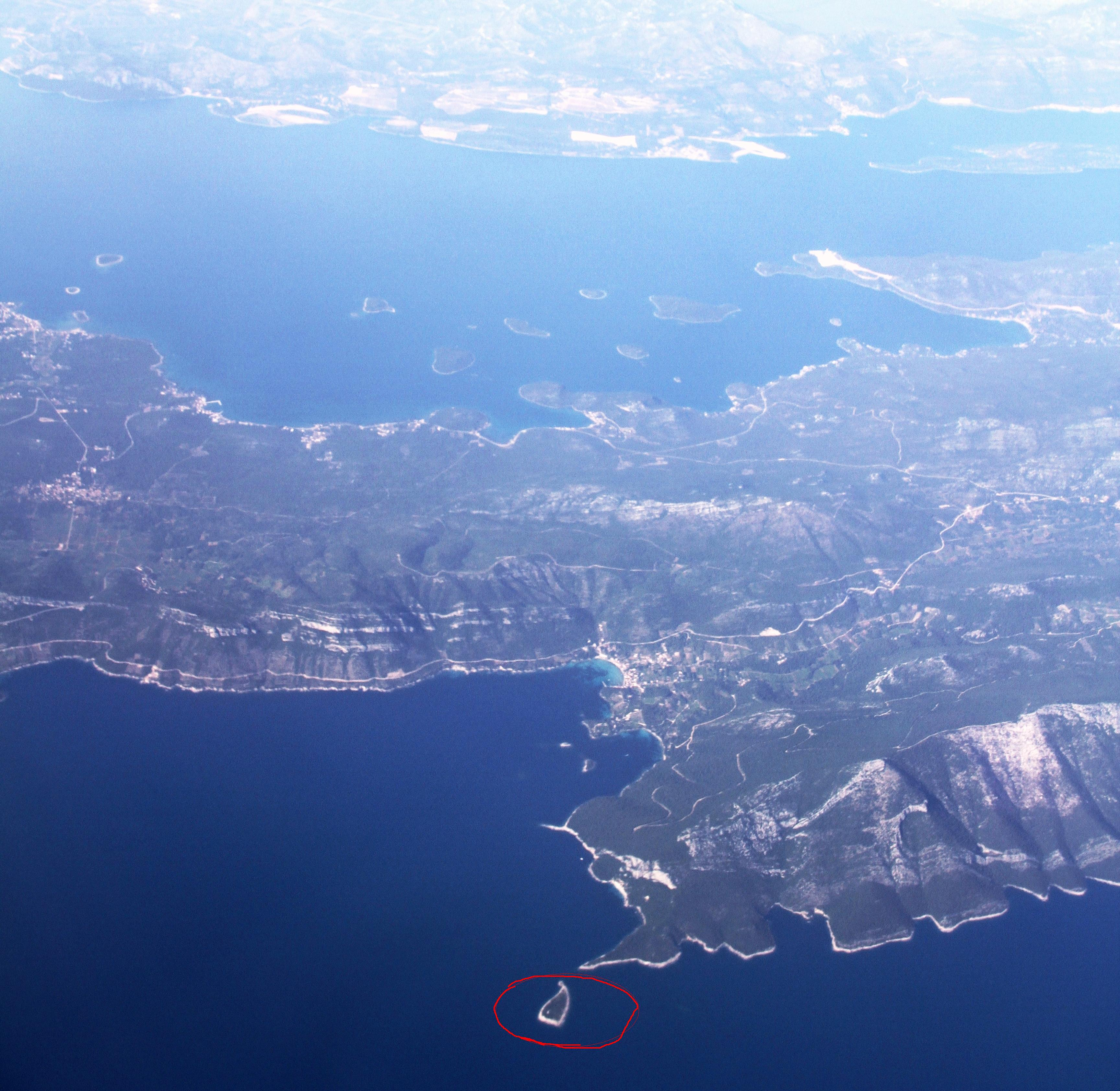 Lirica island